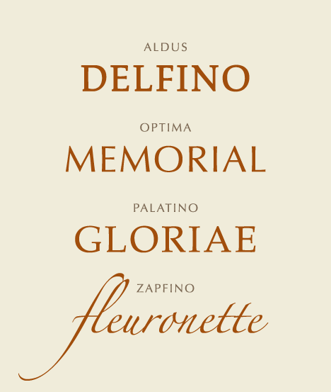 Specimens of faces by typeface designer Hermann Zapf. 14.02.07, Jim Hood